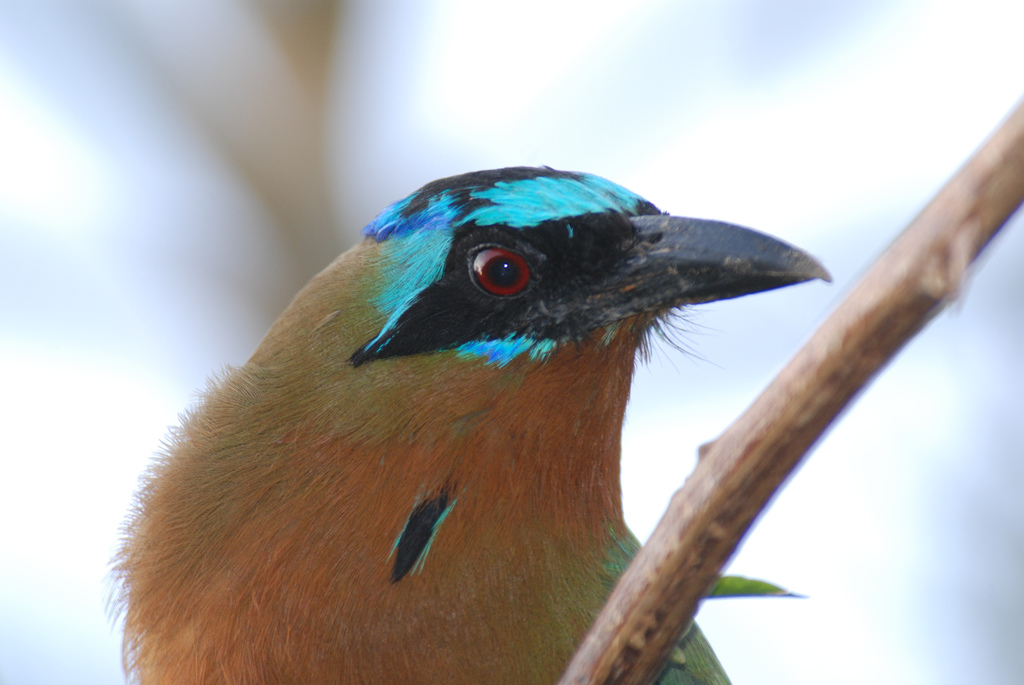 Trinidad Motmot Momotus bahamensis near Plymouth, Tobago.